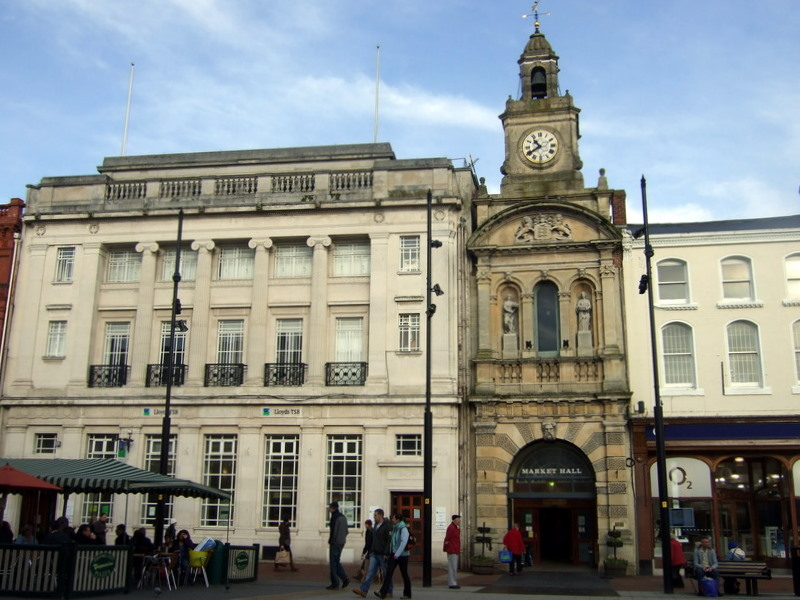 The Market Hall, Hereford This is the frontage in High Town - a deplorable Victorian replacement for the former market place beneath the Old Town Hall said by Pevsner, to be "a sight to thrill any visitor from England or abroad. It was the most fantastic black and white building imaginable, three-storeyed, with gables and the richest, most curious decoration." This building was destroyed in 1862 in the interests of hygiene and traffic flow!